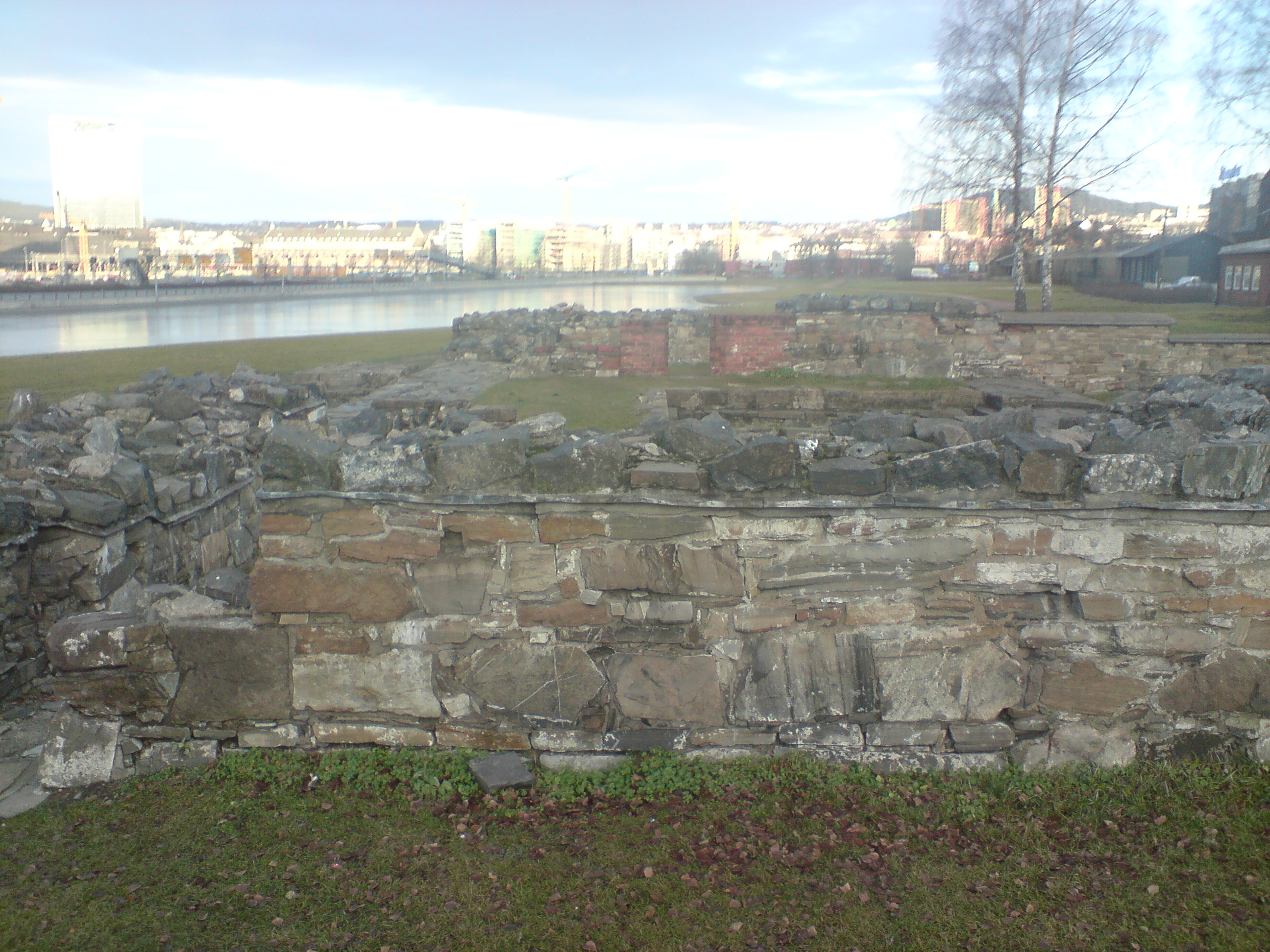 Ruins of the medevial church of Maria